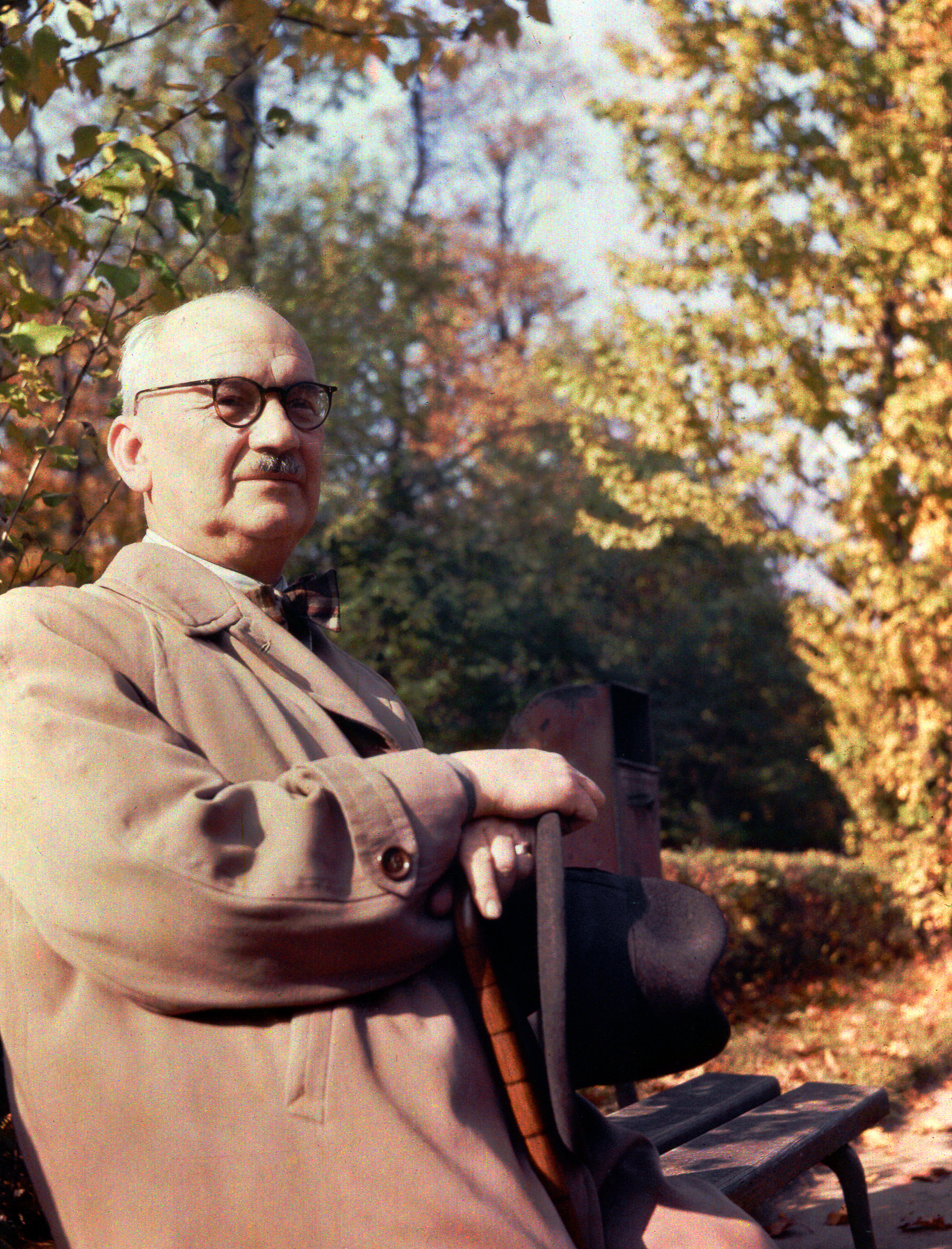 Dufaycolor diapositive additive color system (view full 2400x3149 size to see screening detail)